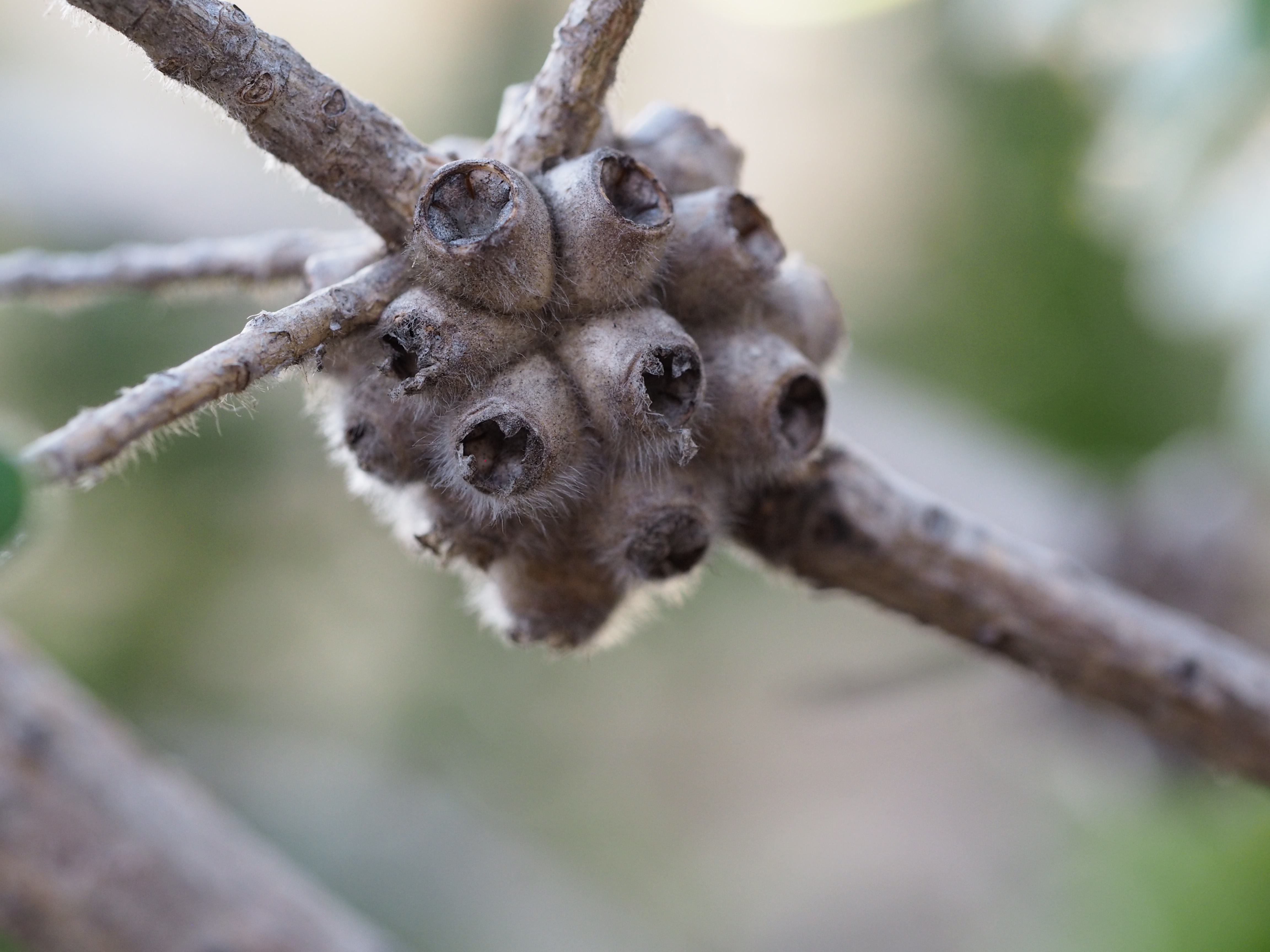 Melaleuca megacephala (cultivated) in Eneabba